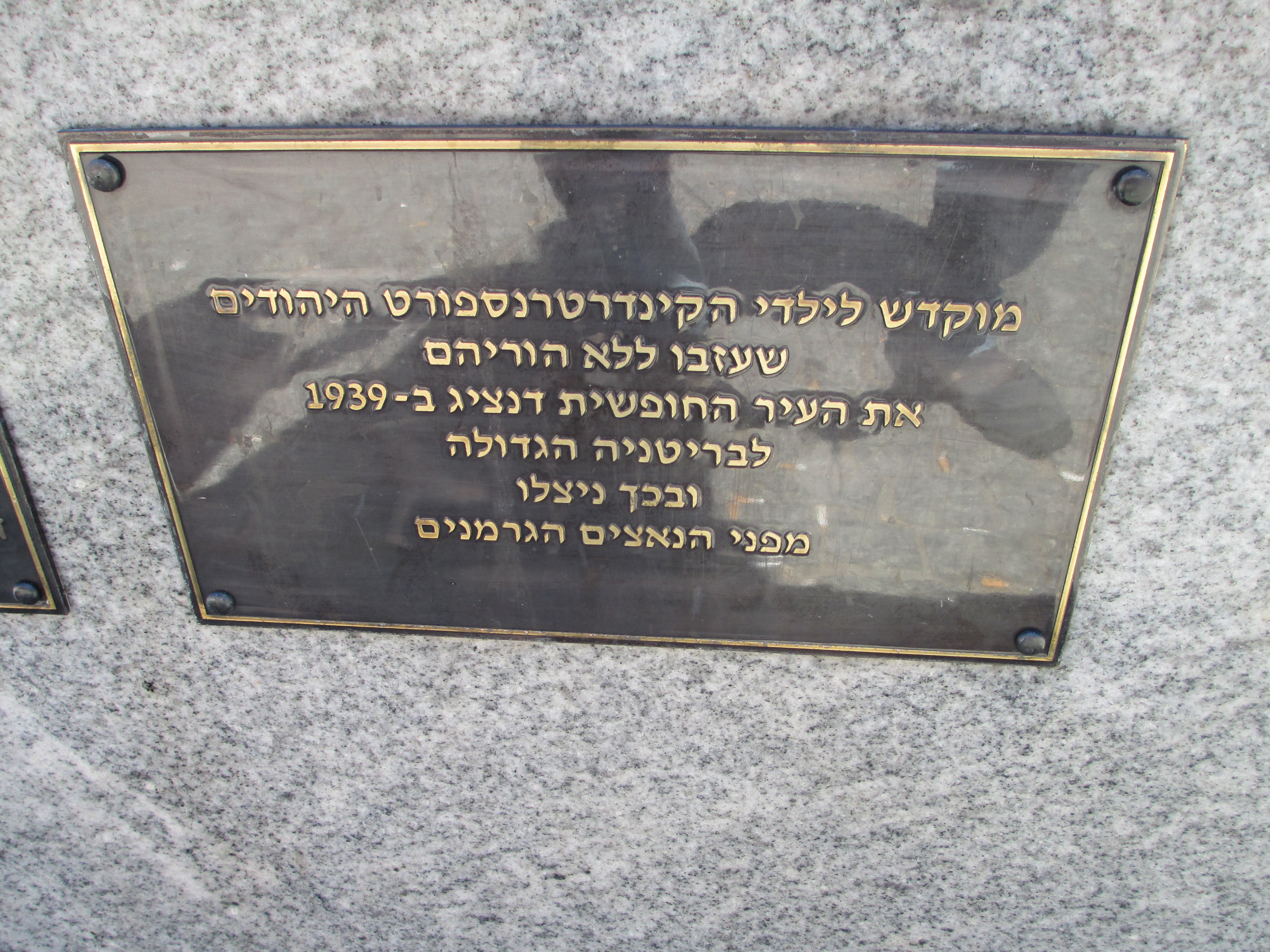 hebrew inscription in kindertransport memorial in gdansk